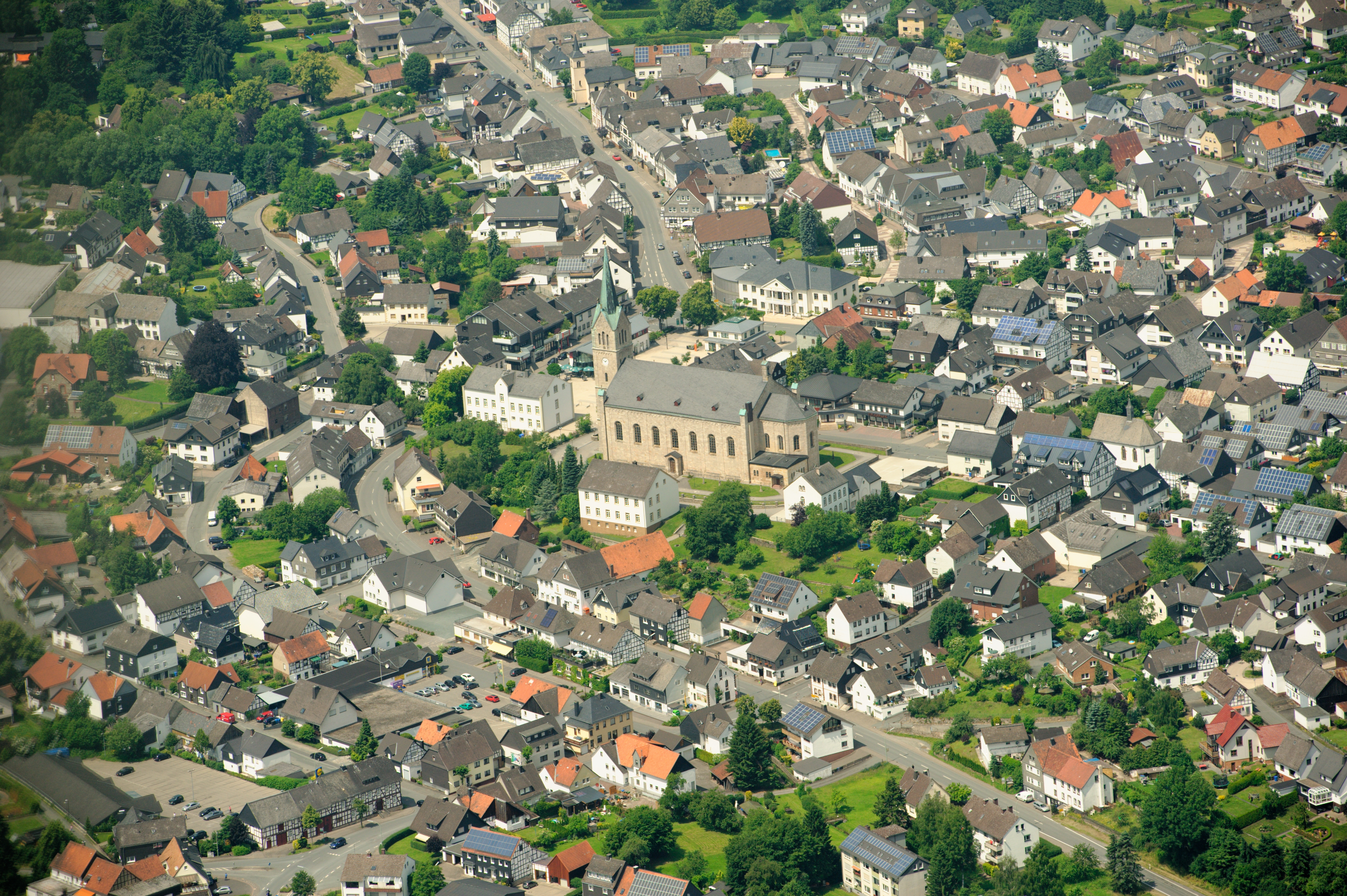 Fotoflug Sauerland-Ost: Zentrum von Medebach mit Pfarrkirche St. Peter und Paul The making of this document was supported by the Community-Budget of Wikimedia Germany.